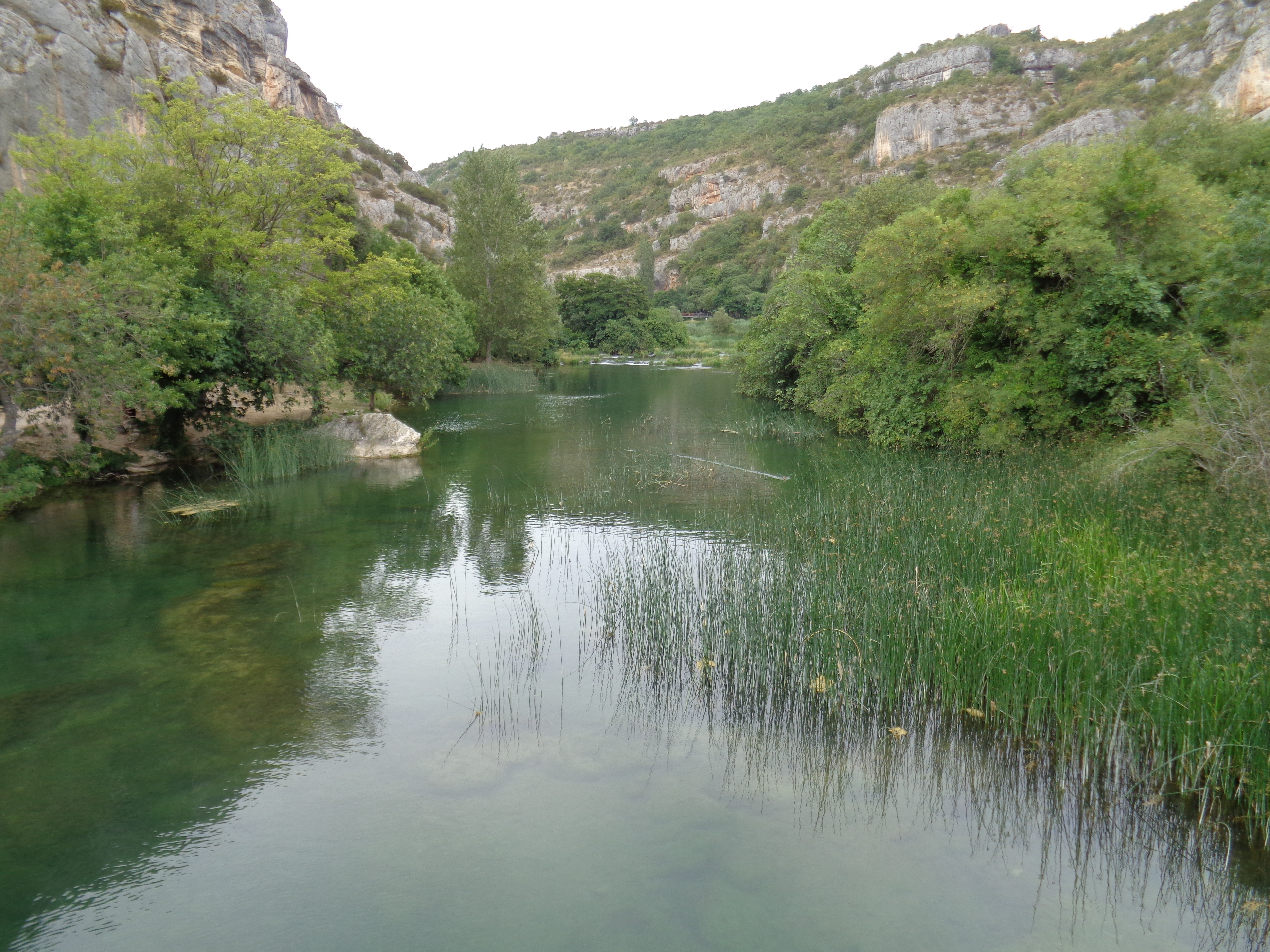 Krka River prior to "Roški Slap" waterfall in the Krka National Park, Croatia